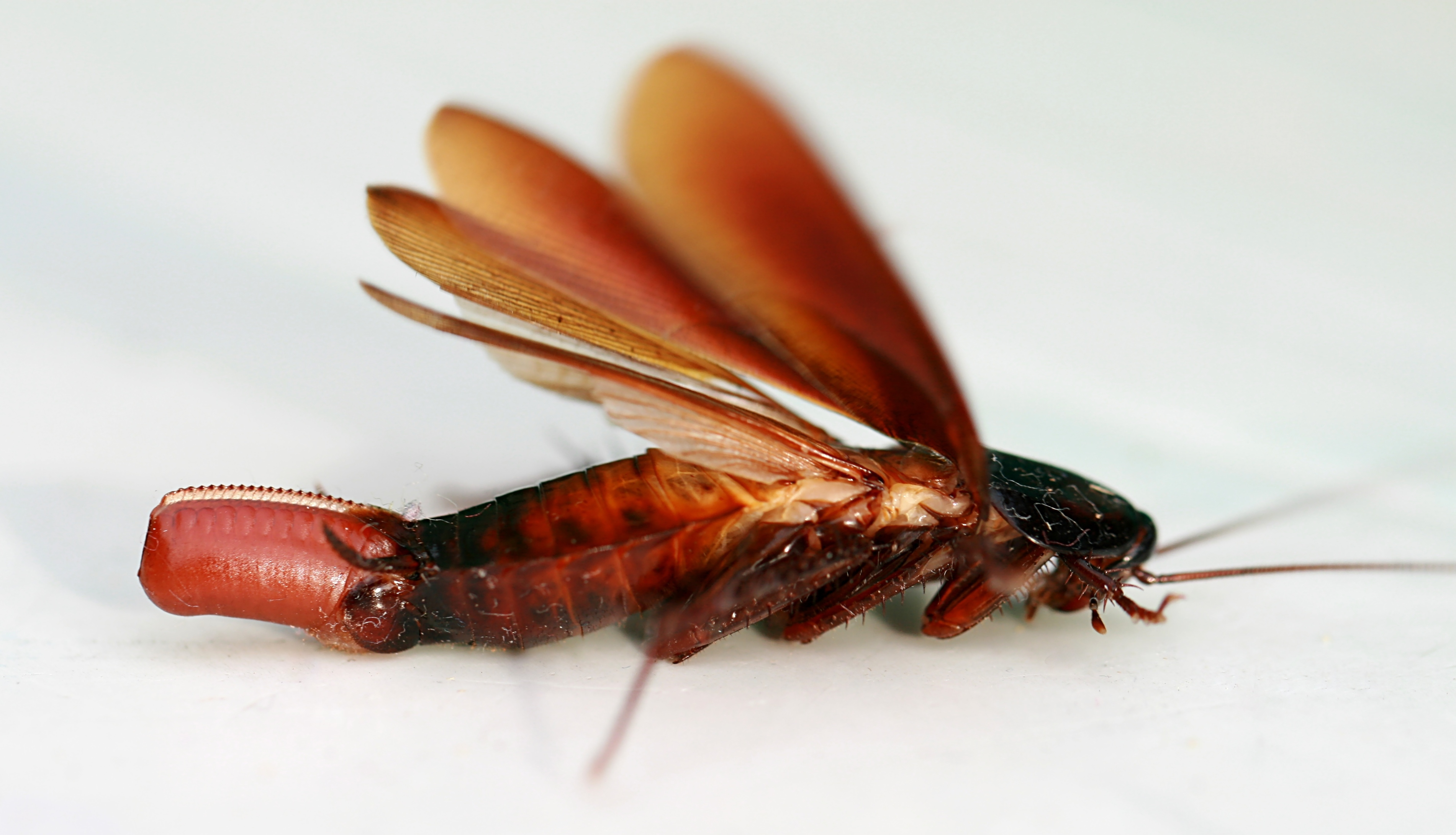 A cockroach (Periplaneta fuliginosa) in Sydney laying an egg capsule.